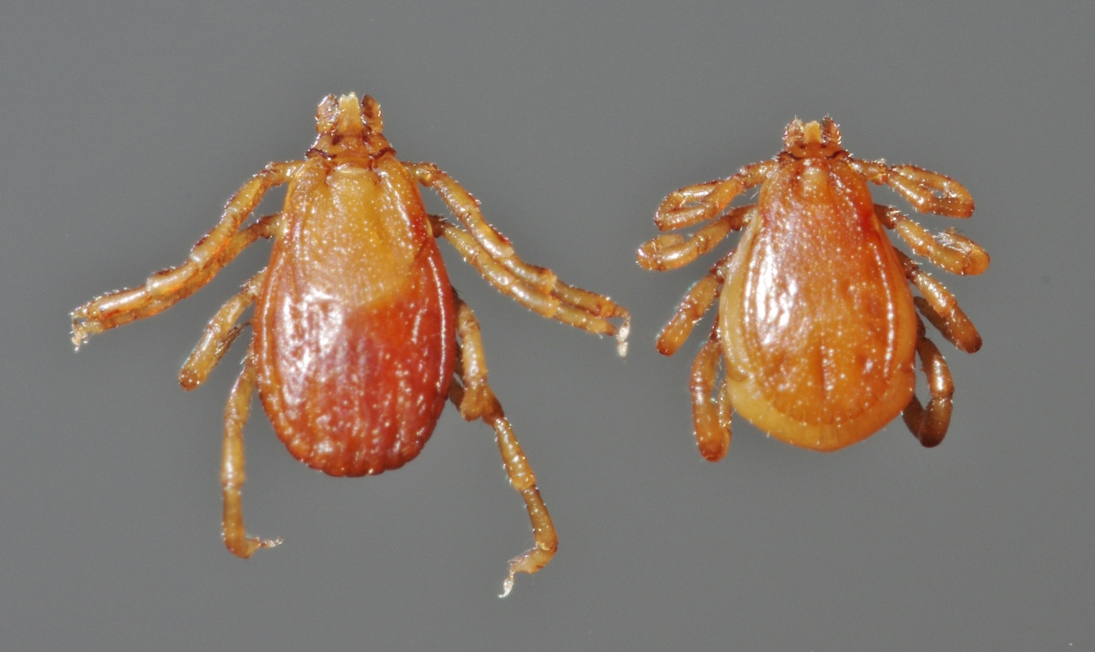 Rhipicephalus sanguineus ixodid ticks, female and male, dorsal.